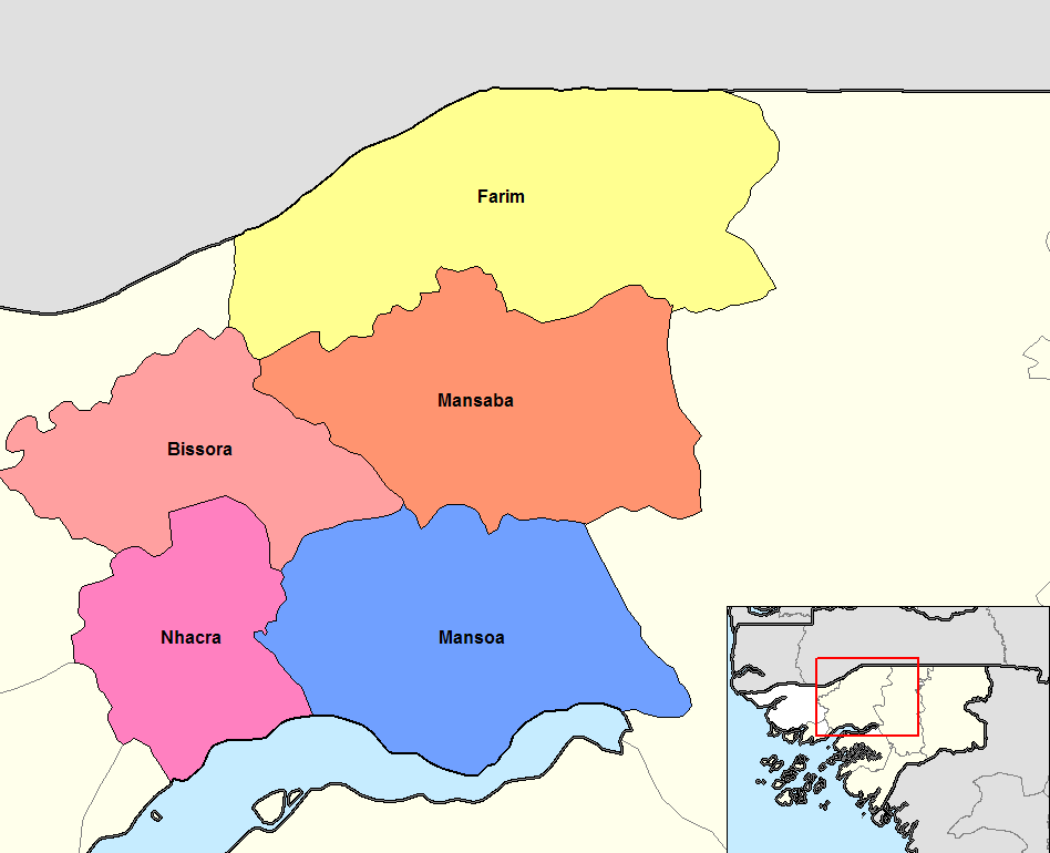 Map of the sectors of Oio region of Guinea-Bissau. Created by Rarelibra 14:48, 14 September 2006 (UTC) for public domain use, using MapInfo Professional v8.5 and various mapping resources.